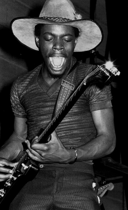 Guitarist Lurrie Bell in Paris, France